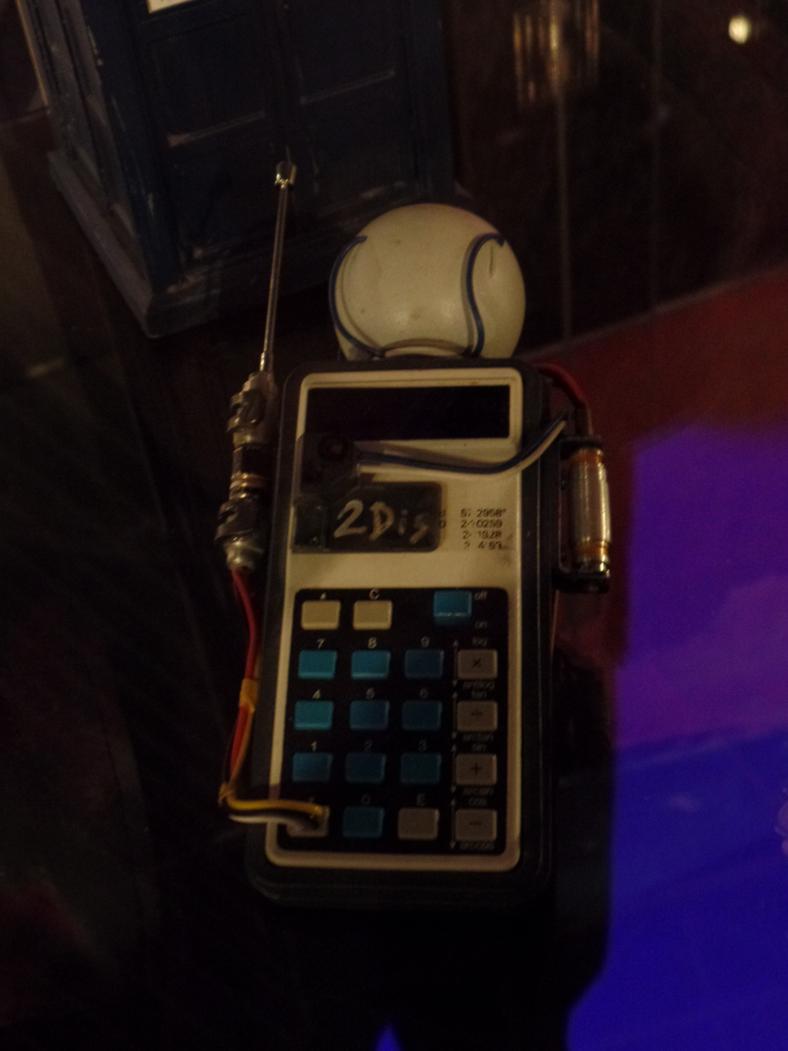 SAMSUNG CAMERA PICTURES Doctor Who Experience